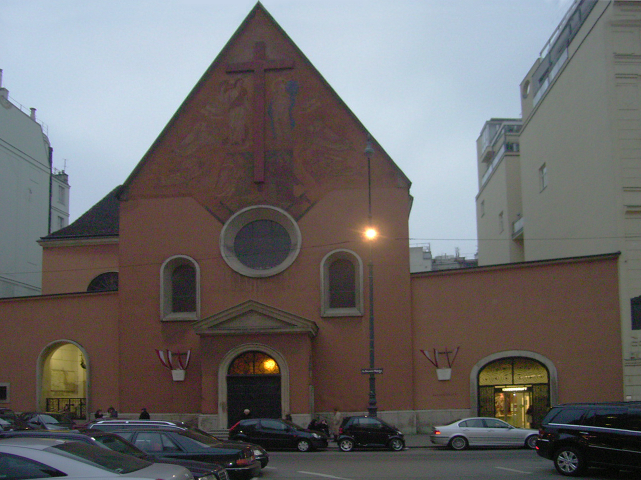 Austria, Vienna, Capuchin Church